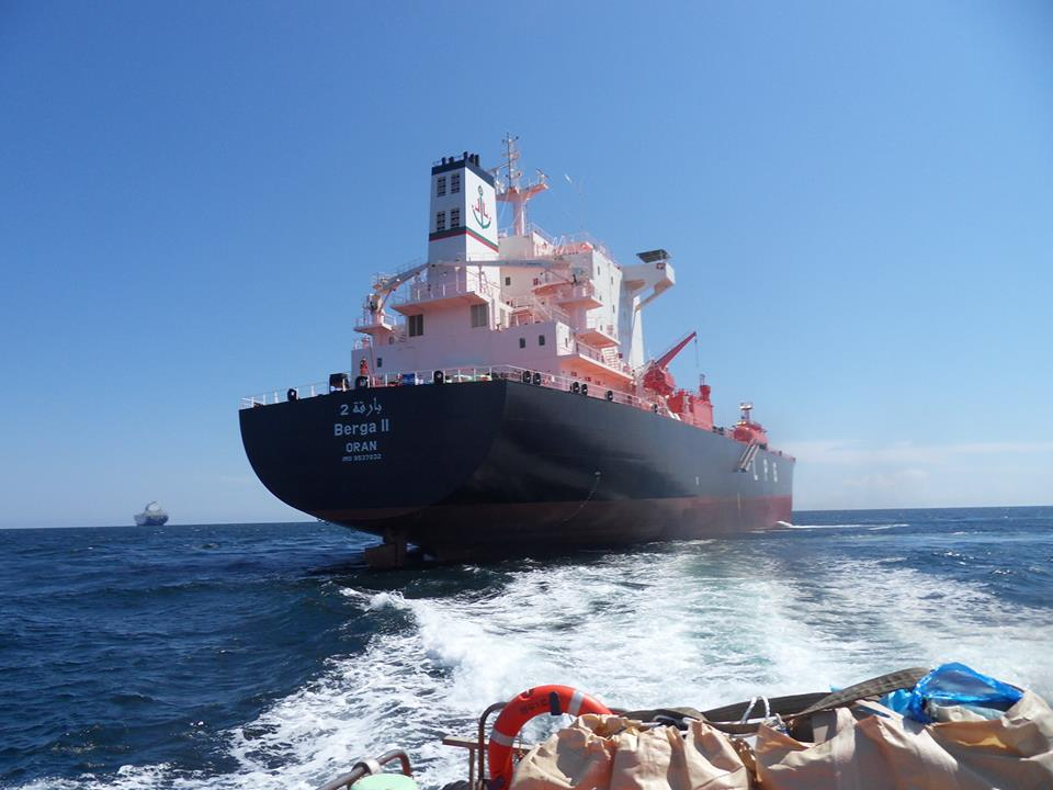 PORT ARZEW This is an image of "African people at work" from Algeria